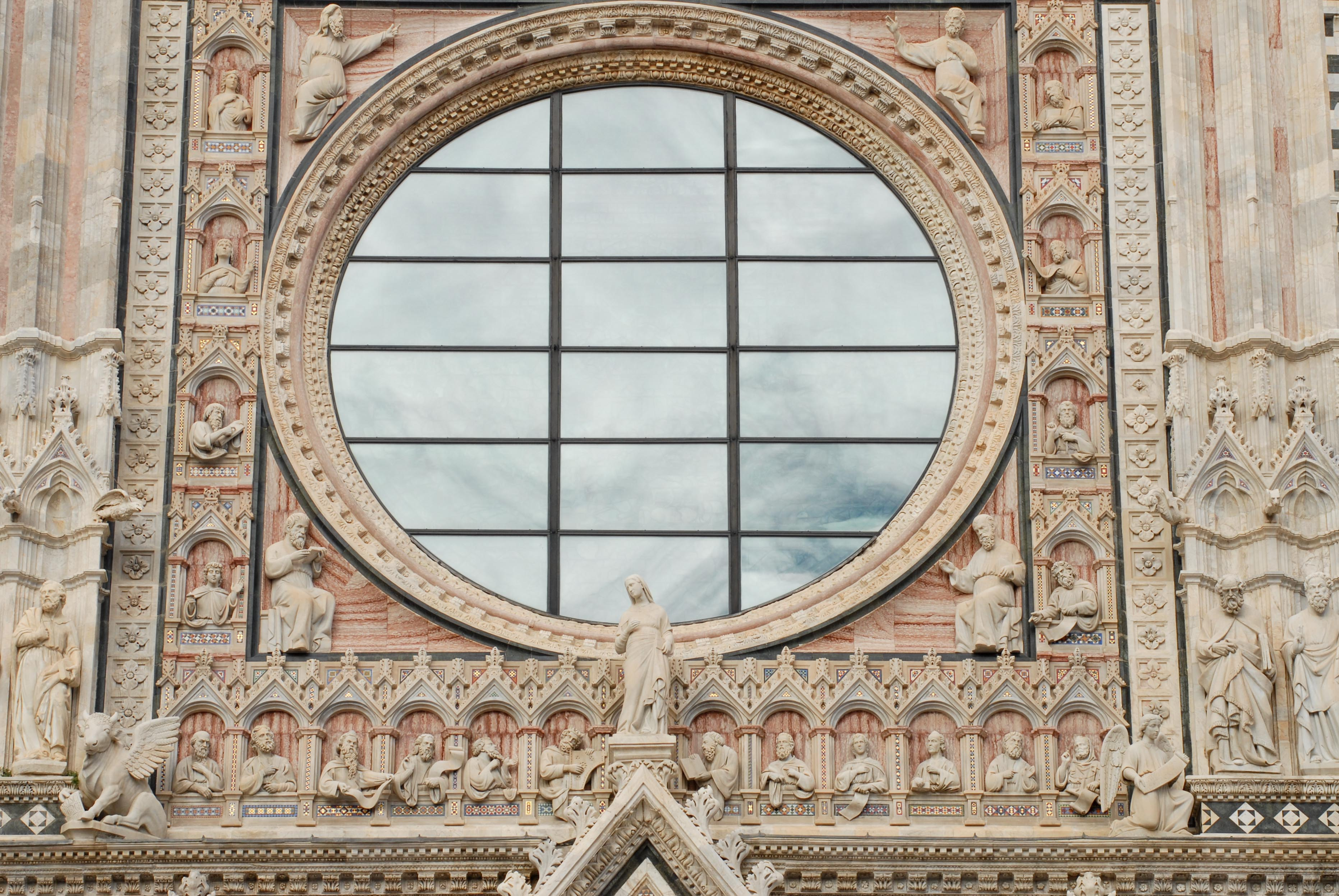 Siena Duomo, cathedral window